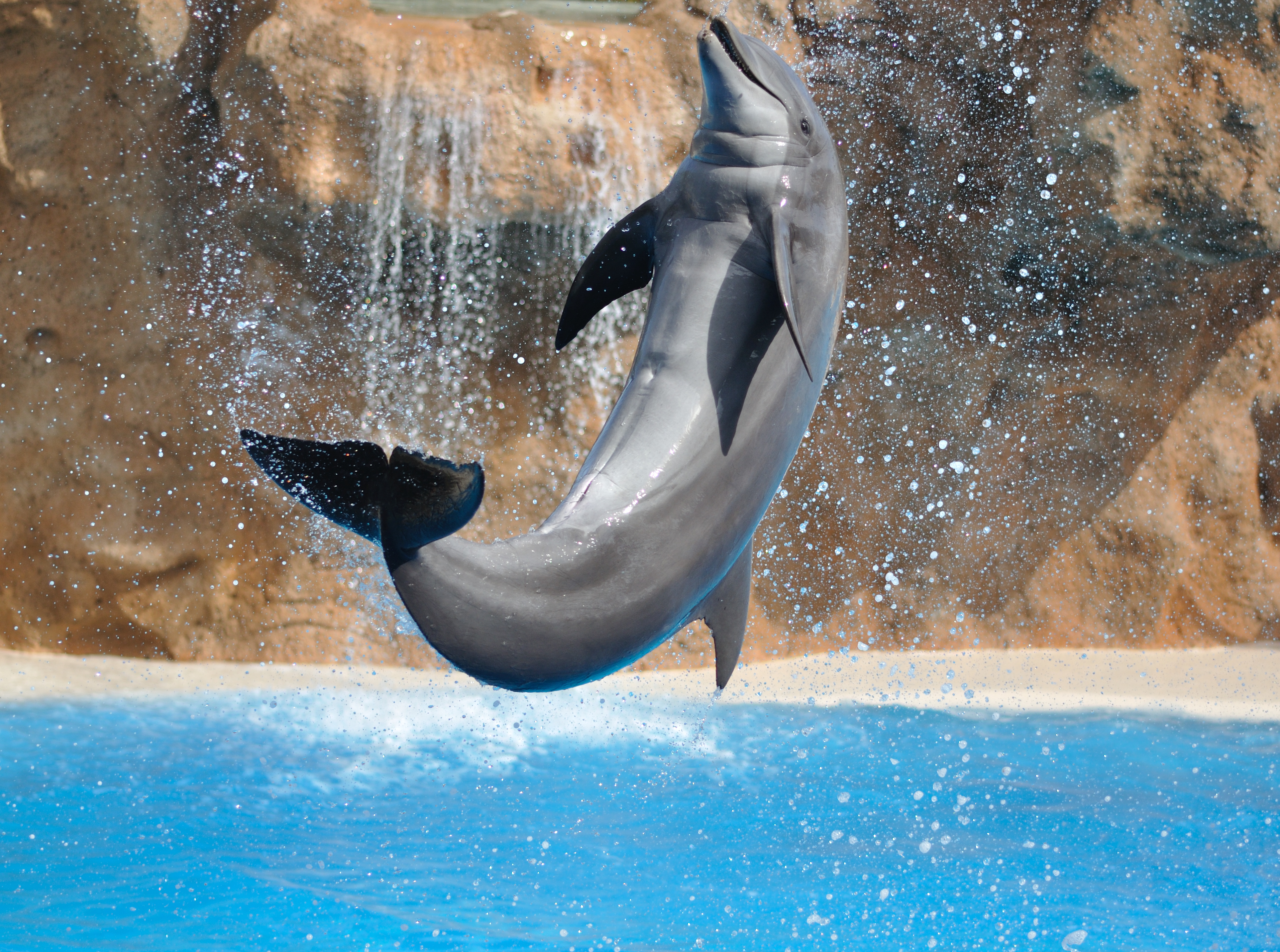 A Bottlenose Dolphin (Tursiops truncatus) performs a salto in the Loro Parque Dolphin Show, Puerto de la Cruz, Tenerife, Spain.